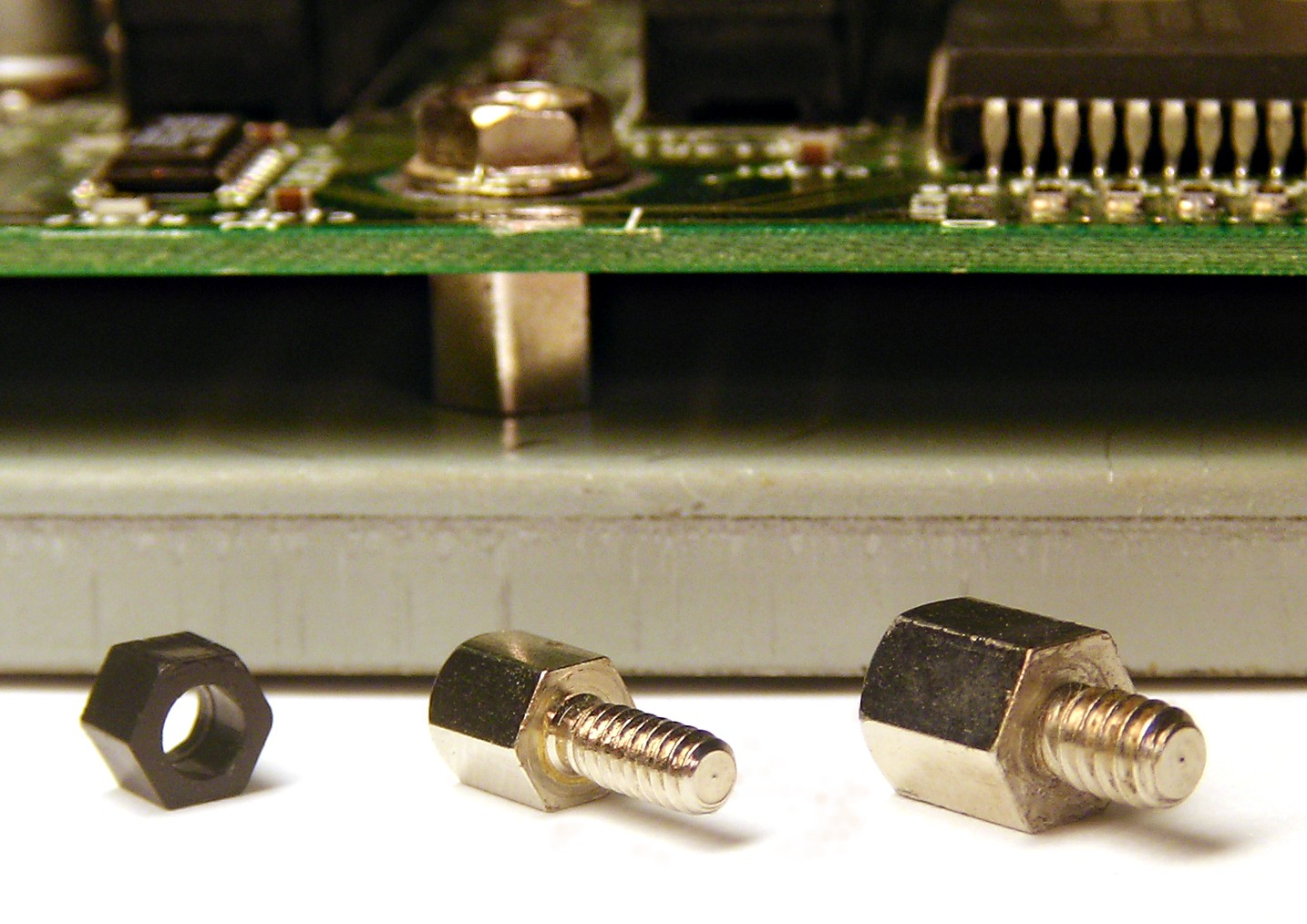 Three loose standoffs (separators) on the foreground and one installed between motherboard and chassis on the background.